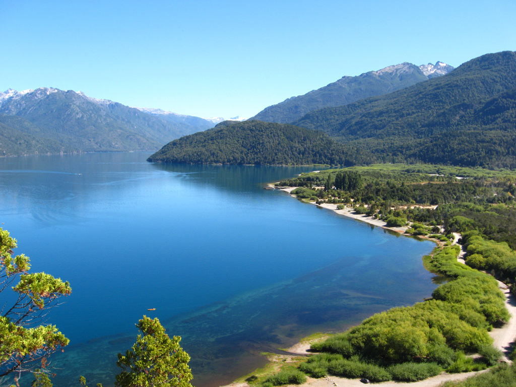 Lago Puelo, Argentina. 23 de Marzo de 2008.